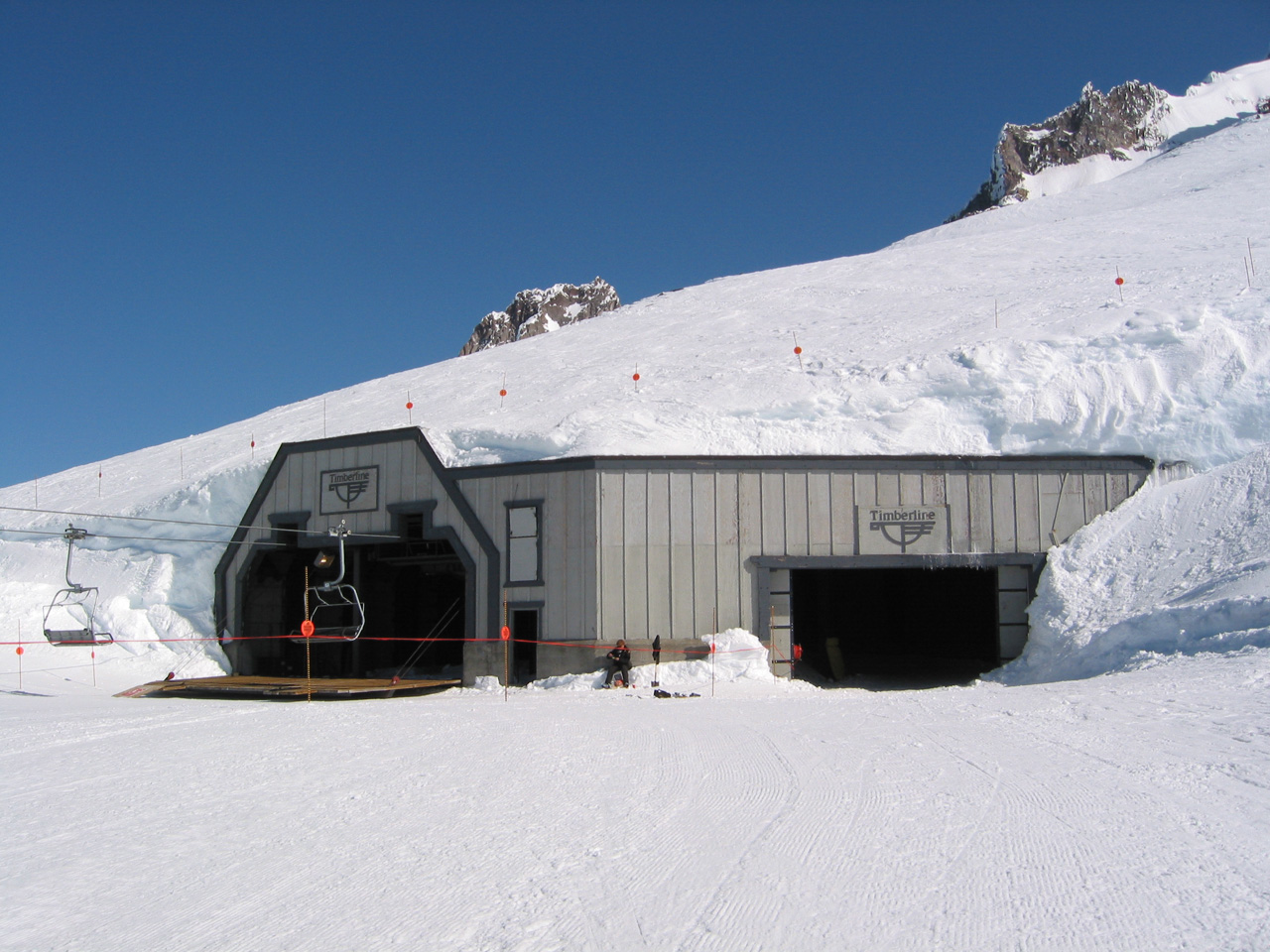 Timberline Lodge Ski Area on Mount Hood, showing the upper terminal of the Palmer chairlift buried in snow.